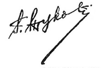 Signature of Georgy Zhukov